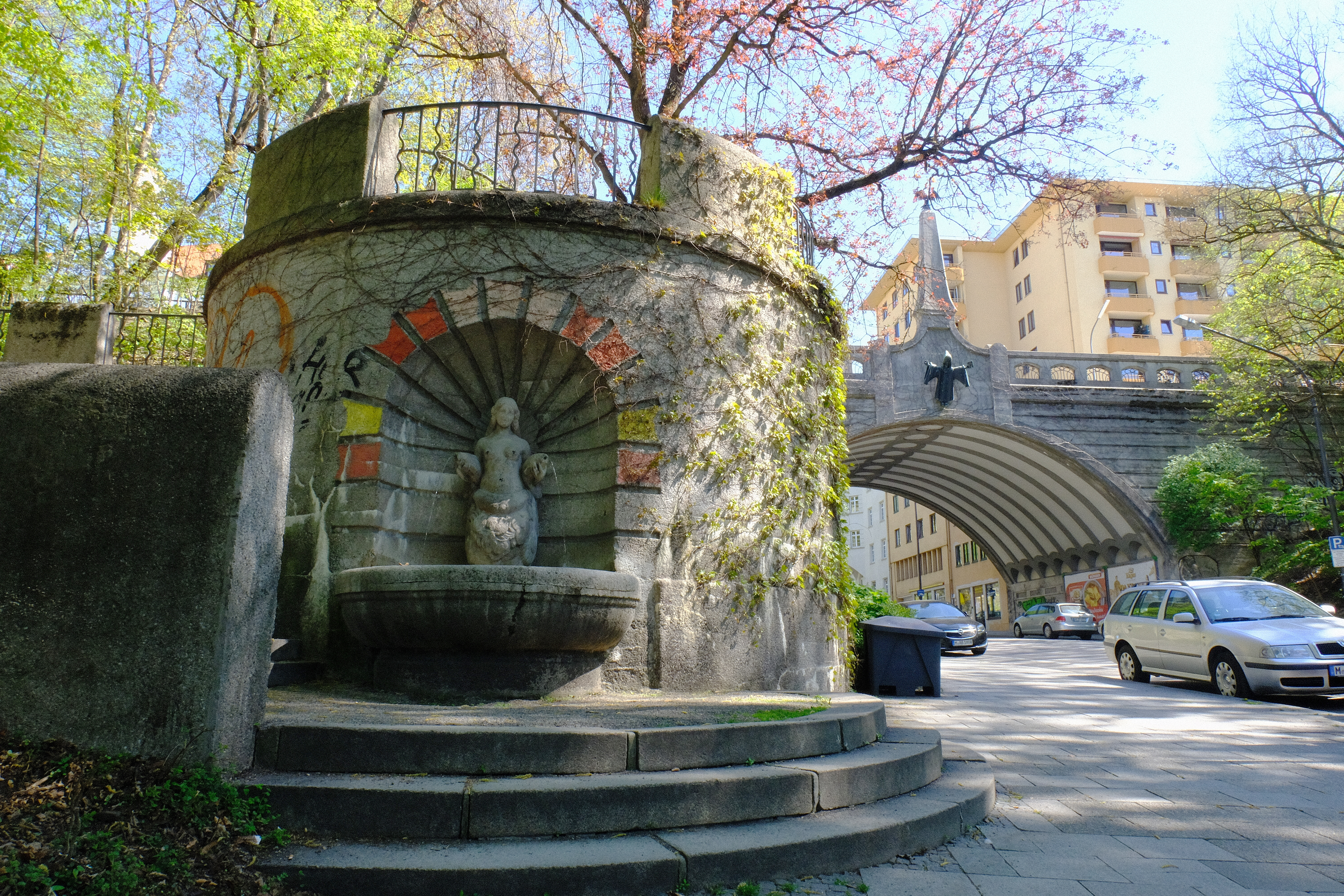 Fountain at the western stairs to Gebsattelbrücke in Munich, 2019